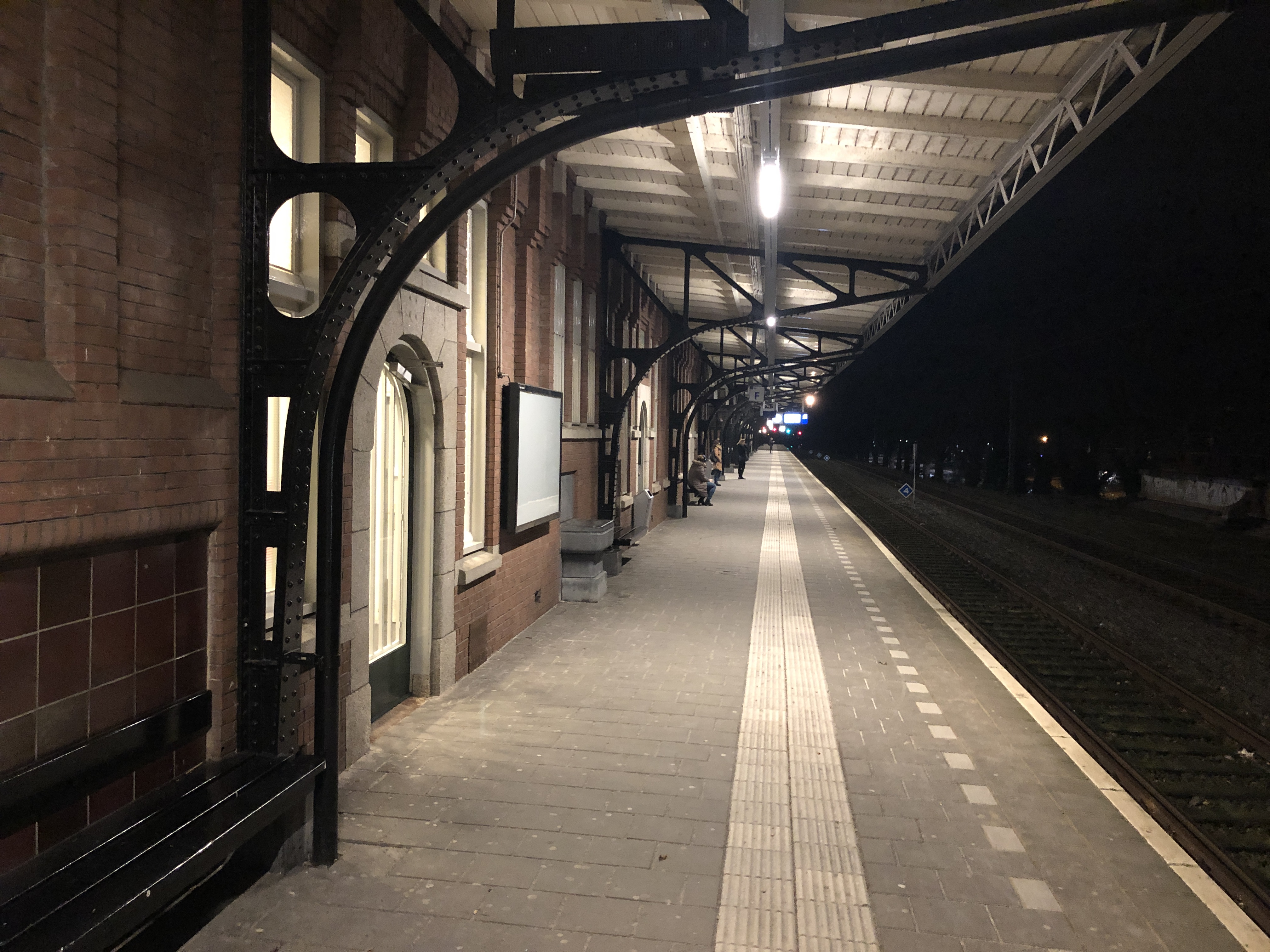 City of Weert (NL province of Limburg) Patform of the train station